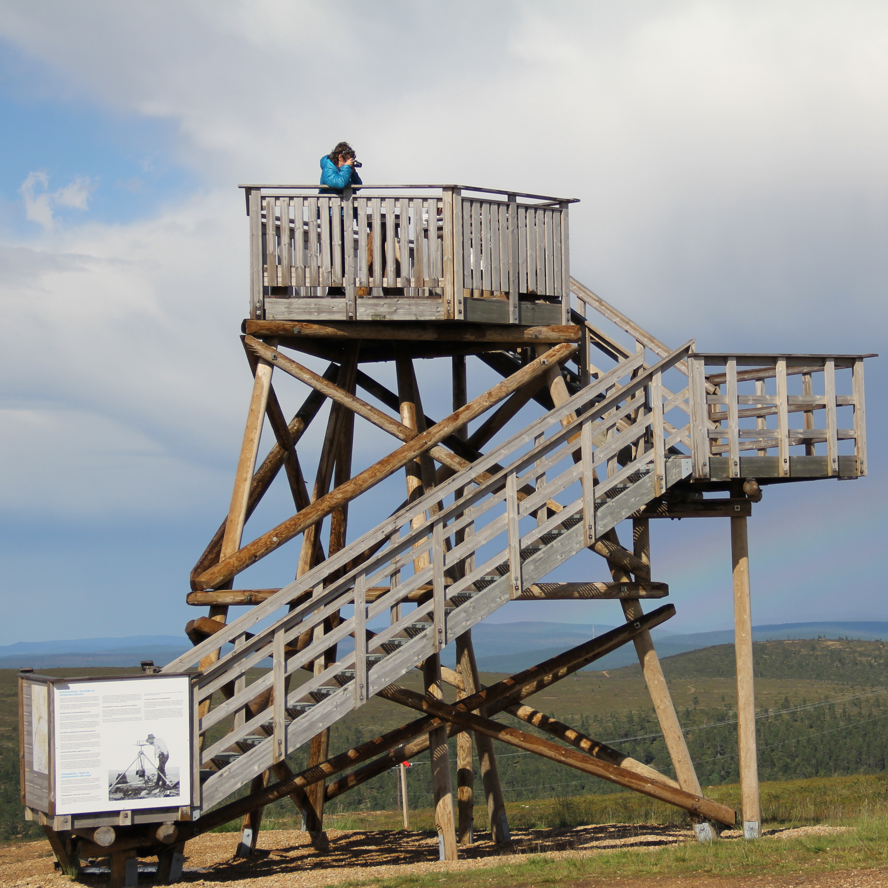 Triangulation tower with rainbow on Kaunispää, Inari, Finland. - Tower is 7,5 m high and it's inauguration day was september 5th 2011. It's built as a memorial for triangulation.